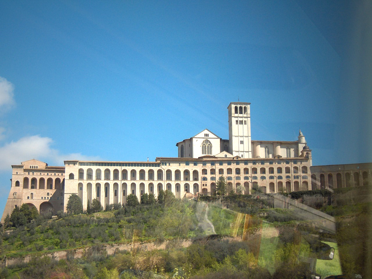 Closer look on the basilica and friary of St. Francis; Assisi, Italy